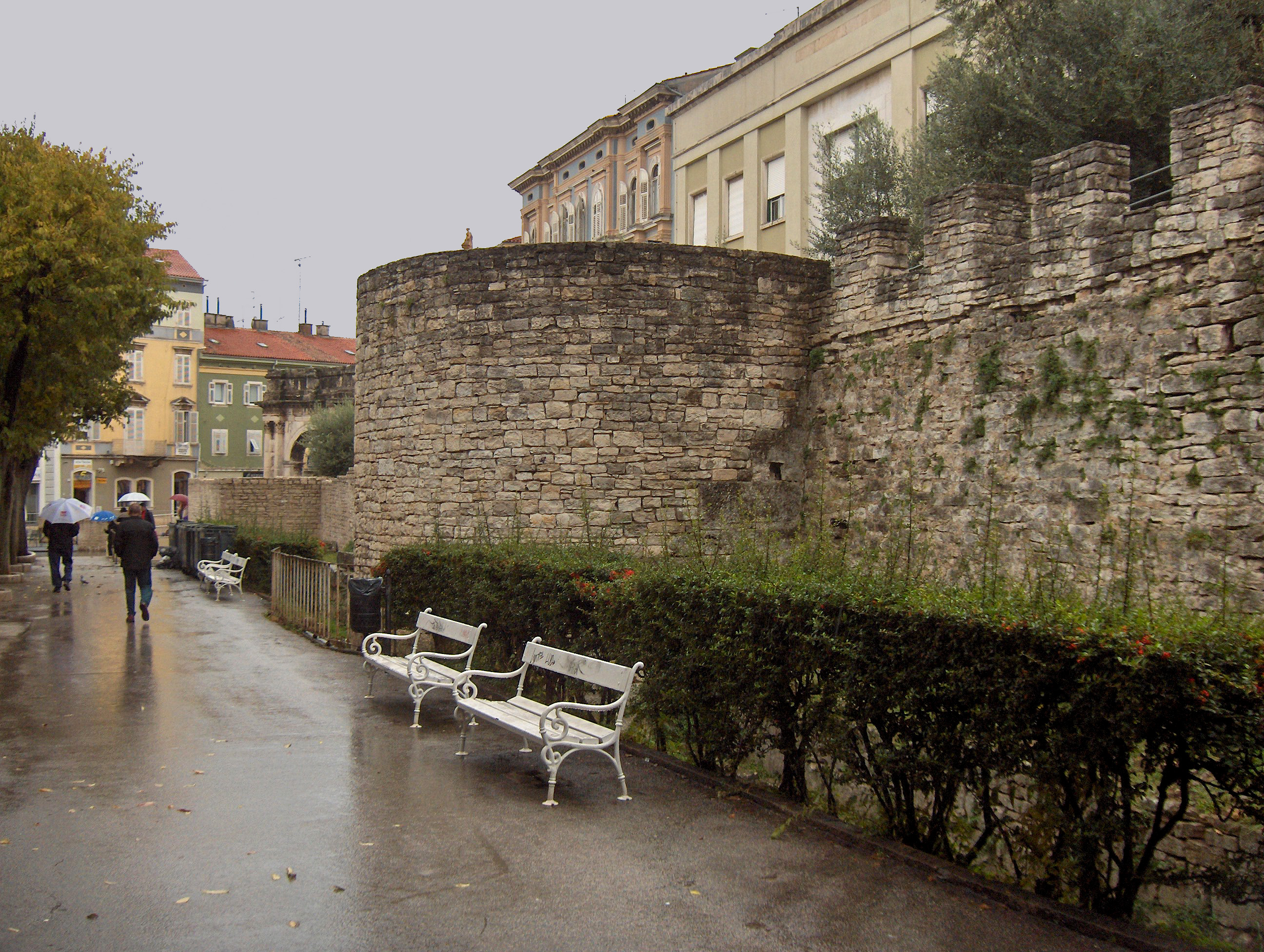 City wall, Pula, Croatia